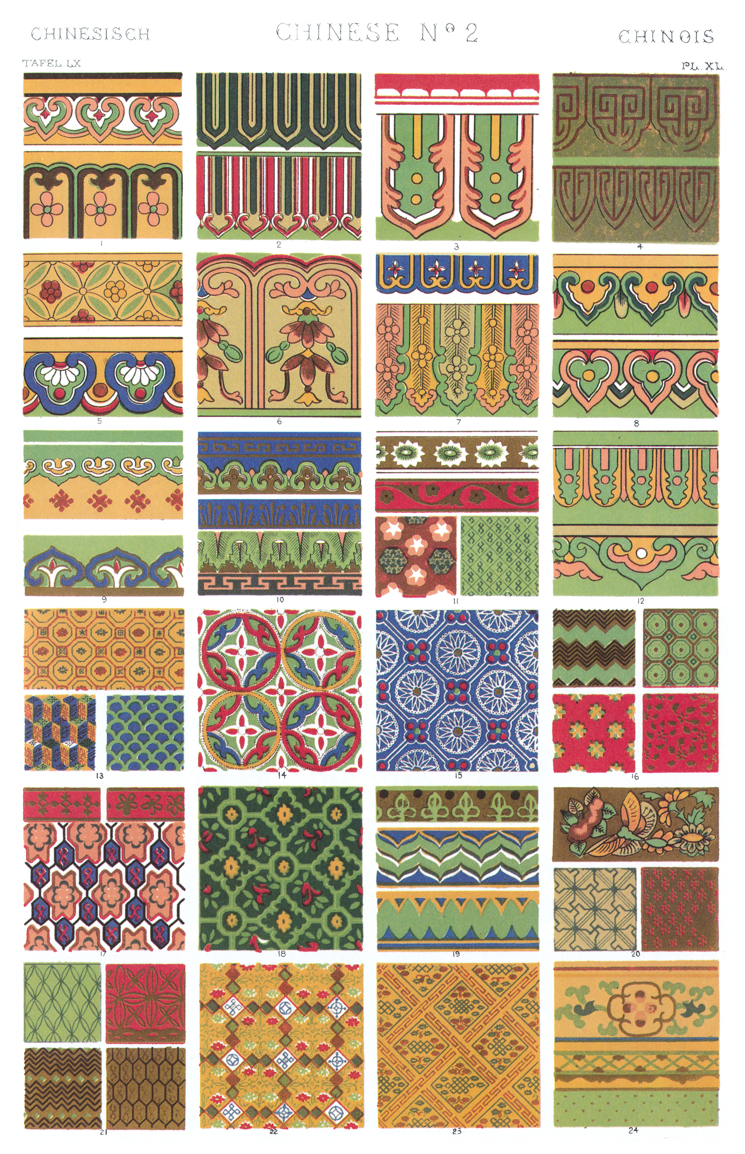 Plate LX (60): “Chinese Nº 2” from Owen Jones, The Grammar of Ornament, folio edition, London: Bernard Quaritch 1868, scanned from a newer reprint of the book. Hint: This plate is numbered “LX” at the left, but “XL” at the right side; the correct number is “LX” (60). That this digital image is scanned from a reprint of Jones’ book, is not a copyright problem, because the original book is in public domain (Jones died in 1874), and so both the reproduction in the reprint and this digital image are in public domain, too. But it is some problem for the image quality: the offset reprint has rasterized the original chromolithographic print, and may have introduced colour changes, too. So a high-quality scan from a good copy of the original 1868 publication would be much better, and very welcome …